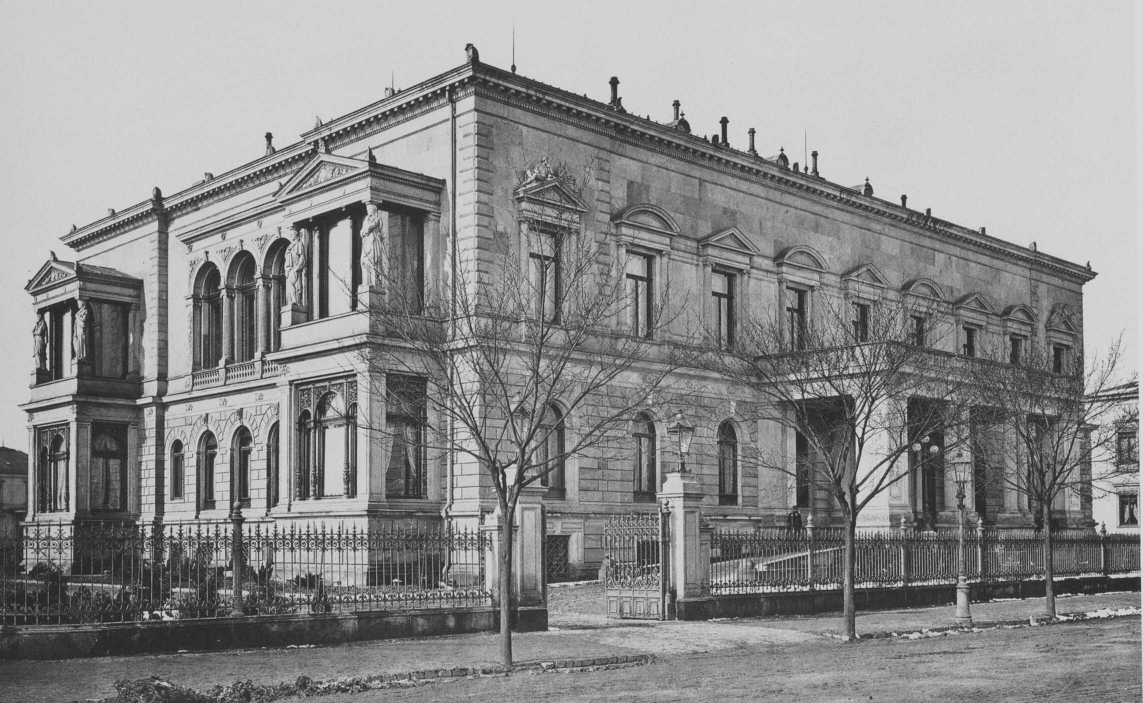 Palais Kap-herr in Dresden